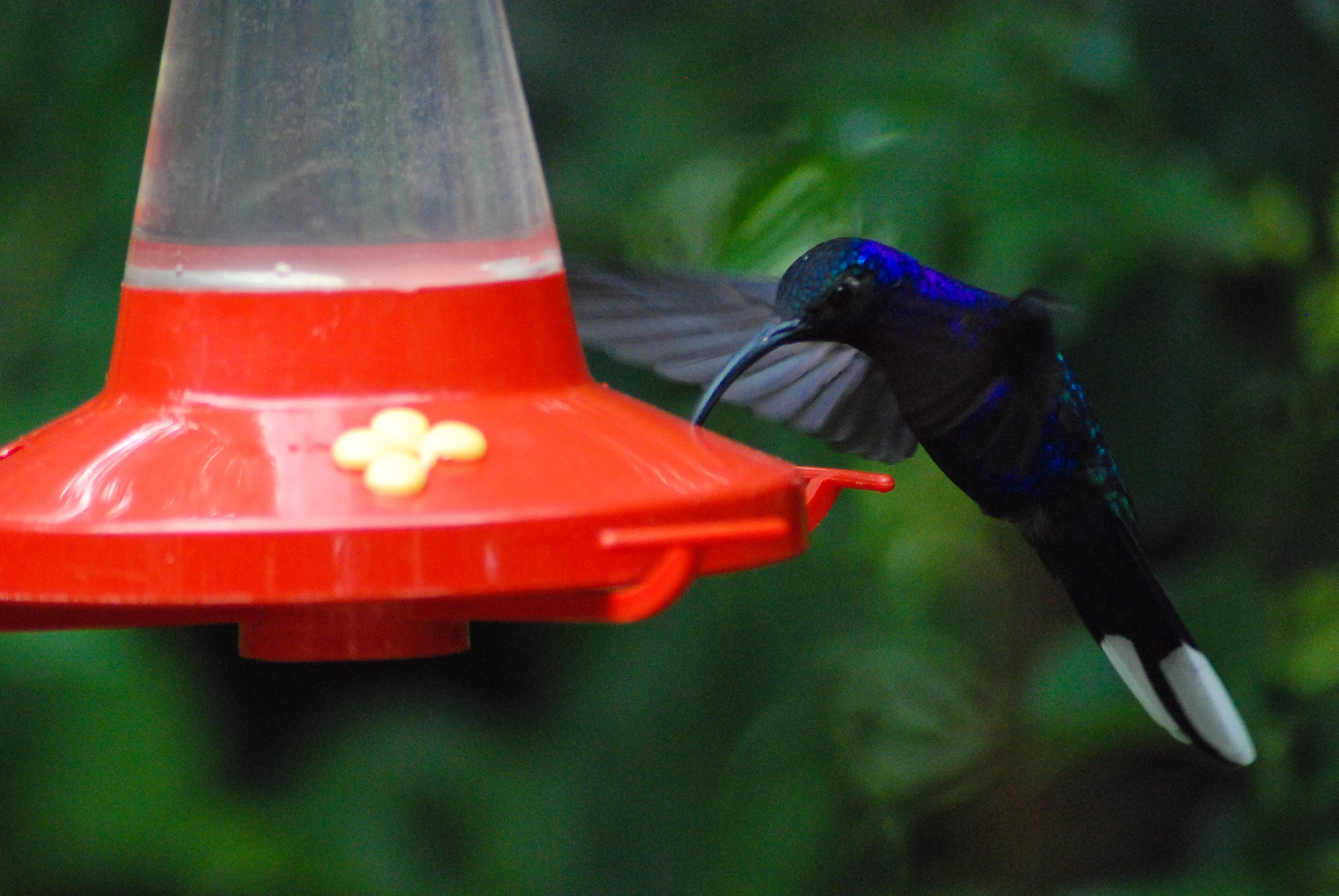 male Violet Sabrewing (Campylopterus hemileucurus) from Monteverde (Costa Rica).